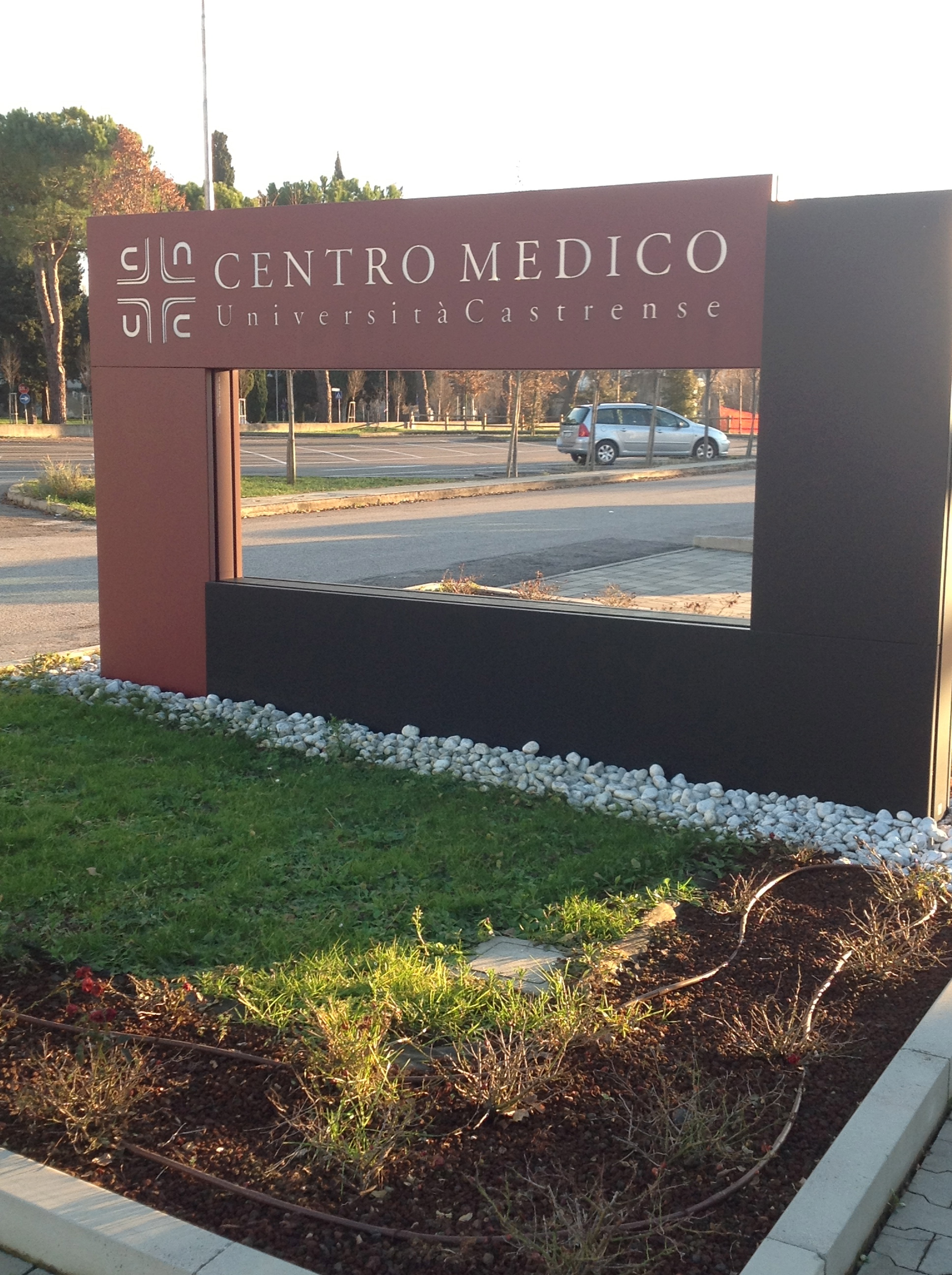 Medical Centre of San Giorgio di Nogaro